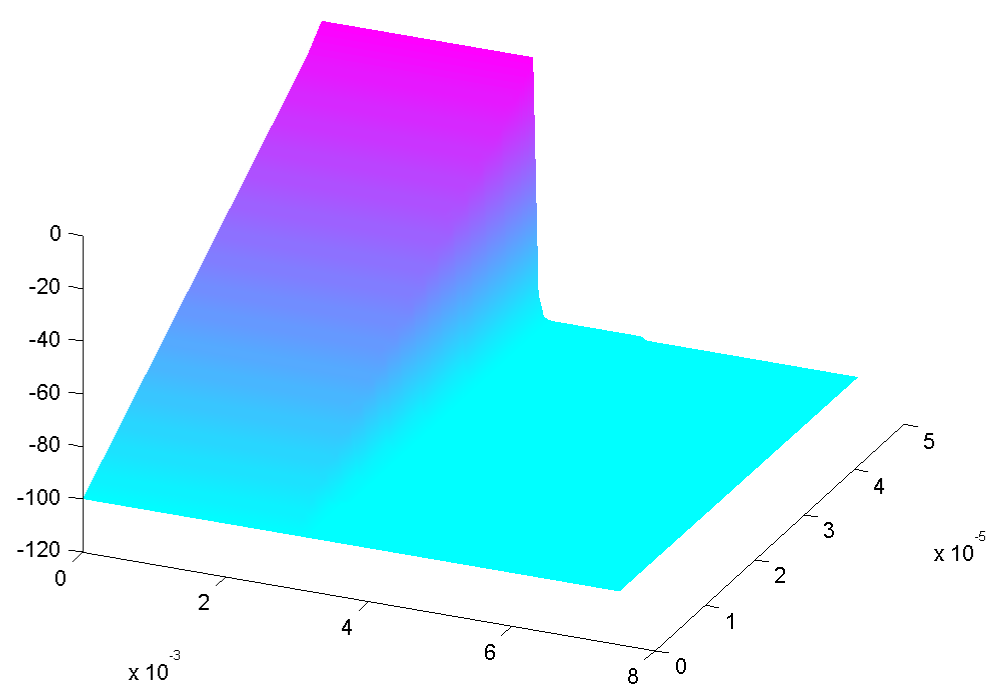 Simulated electric potential in a MOSFET device